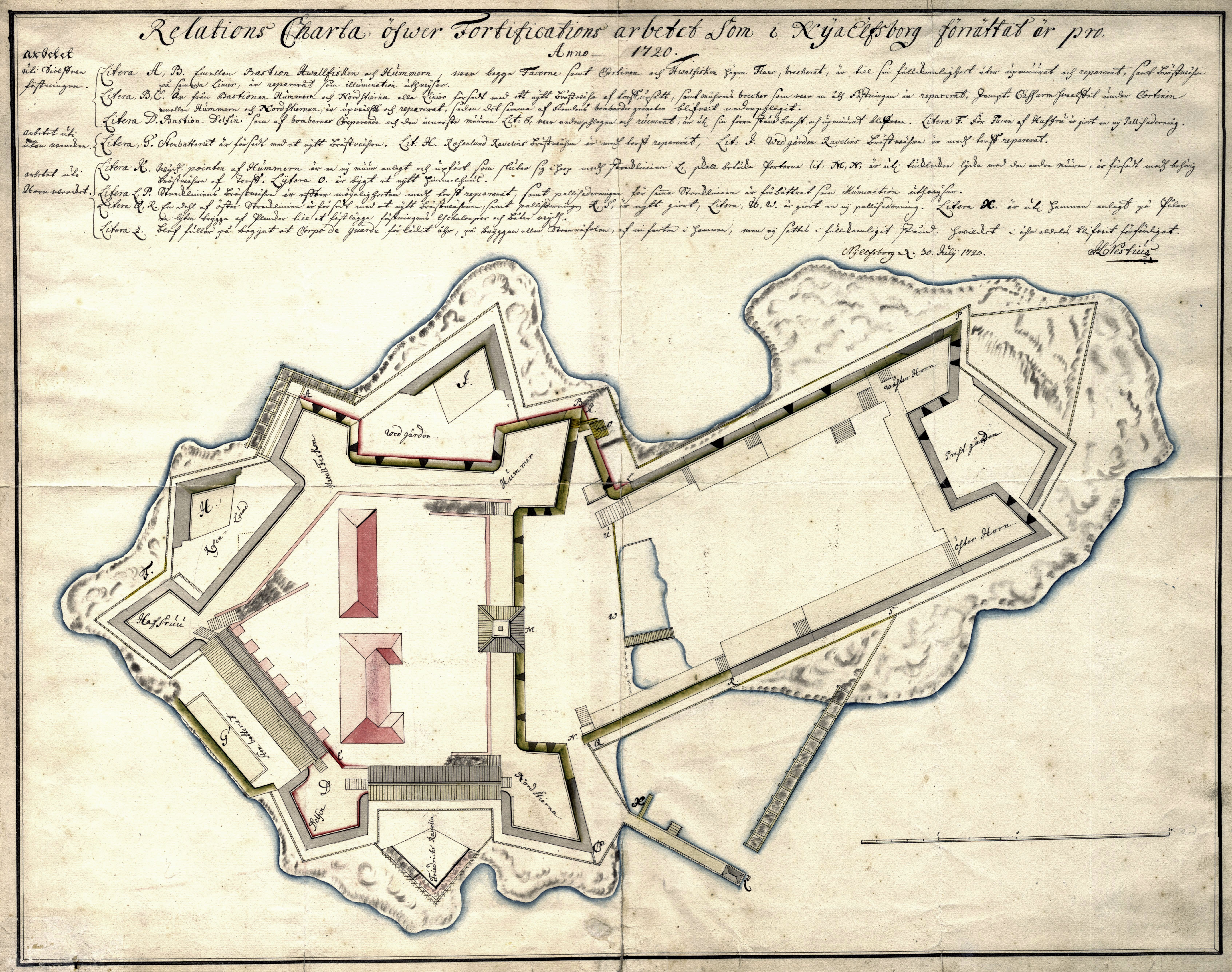 Map showing the repairwork done on fortress Nya Älvsborg in Gothenburg harbour, Sweden, from summer 1719 to summer 1720.